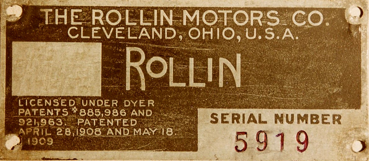 Serial plate of a Rollin 1924 passenger car (the Rollin Motors Co. , Cleveland, Ohio, USA